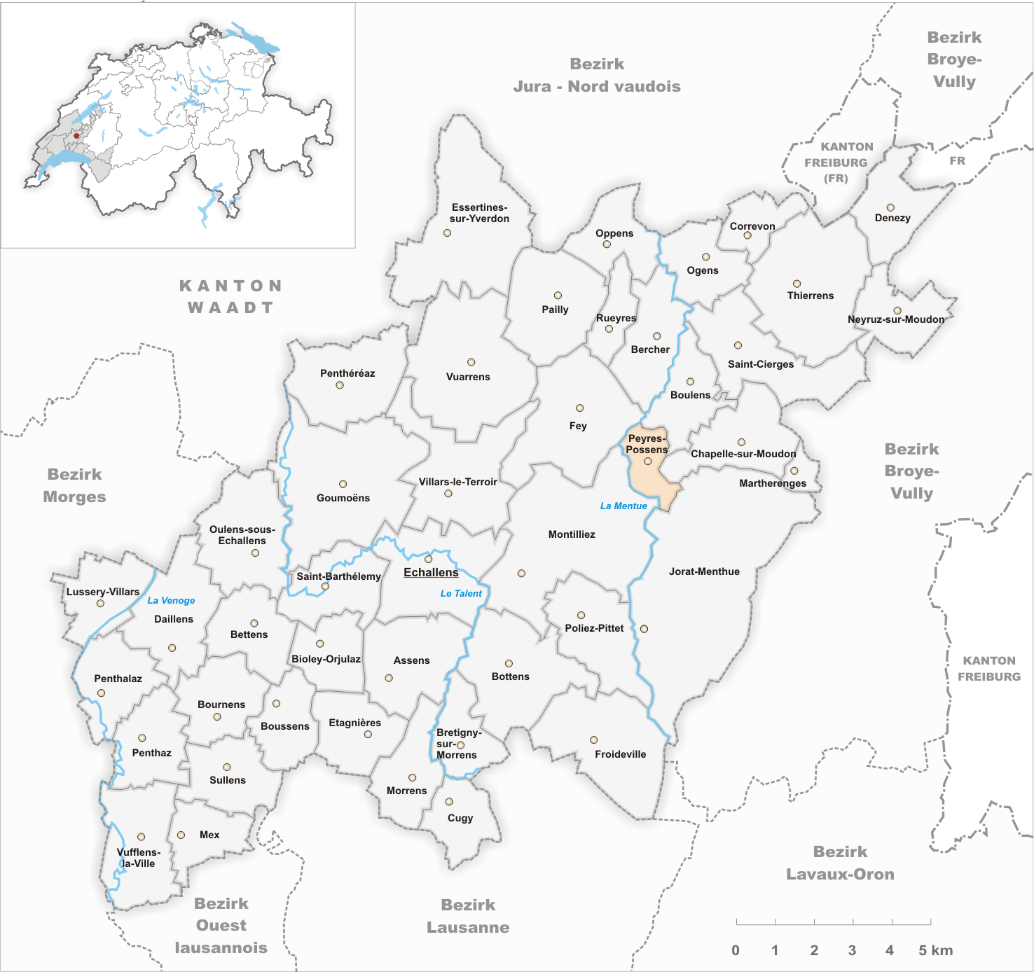 Municipality Peyres-Possens